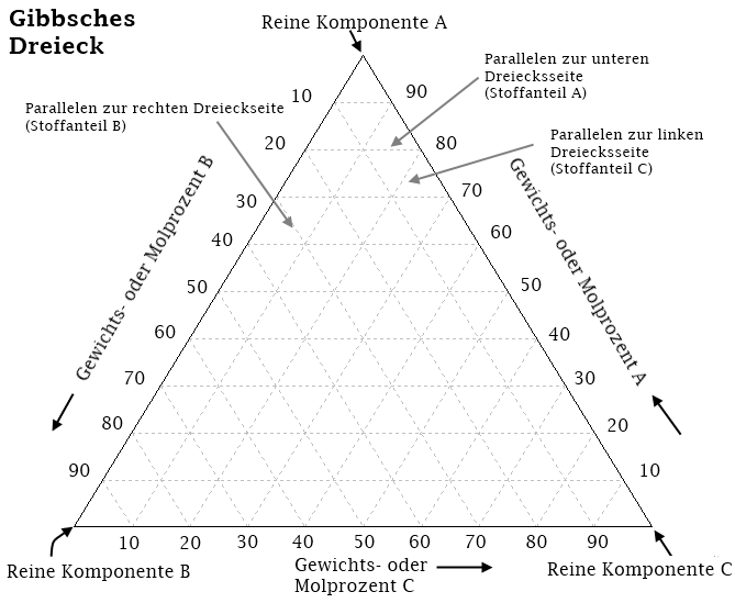 Gibbs Triangle - Basic diagram without data